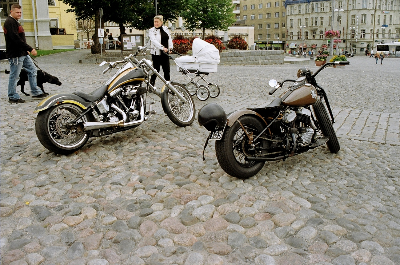 Harley-Davidson motorcycles at the bike show Mansen Mäntä Messut in the Central Square of Tampere, Finland. On the right appears to be an old, Flathead era bike.